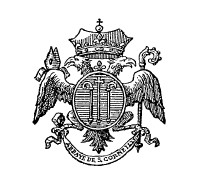 Coat of Arms abbaye Saint-Corneille Picardie Famille Mottet